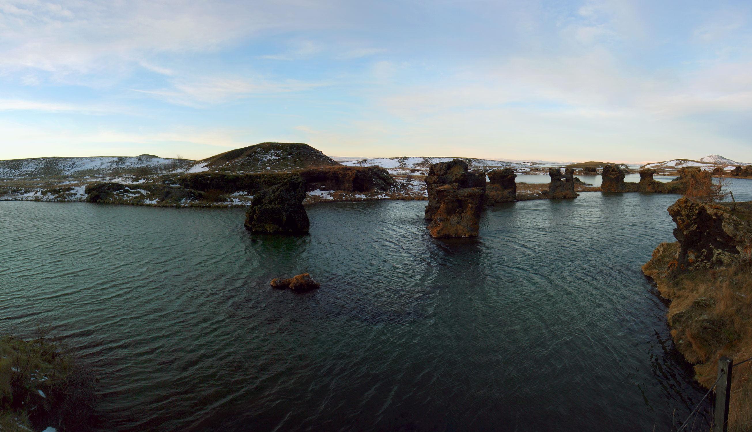 The unfrozen source of Mývatn, looking west from Höfði, November 22 12:25 Iceland, November 2007 Photo by me user:debivort (or friend, with permission given to freely license photo).